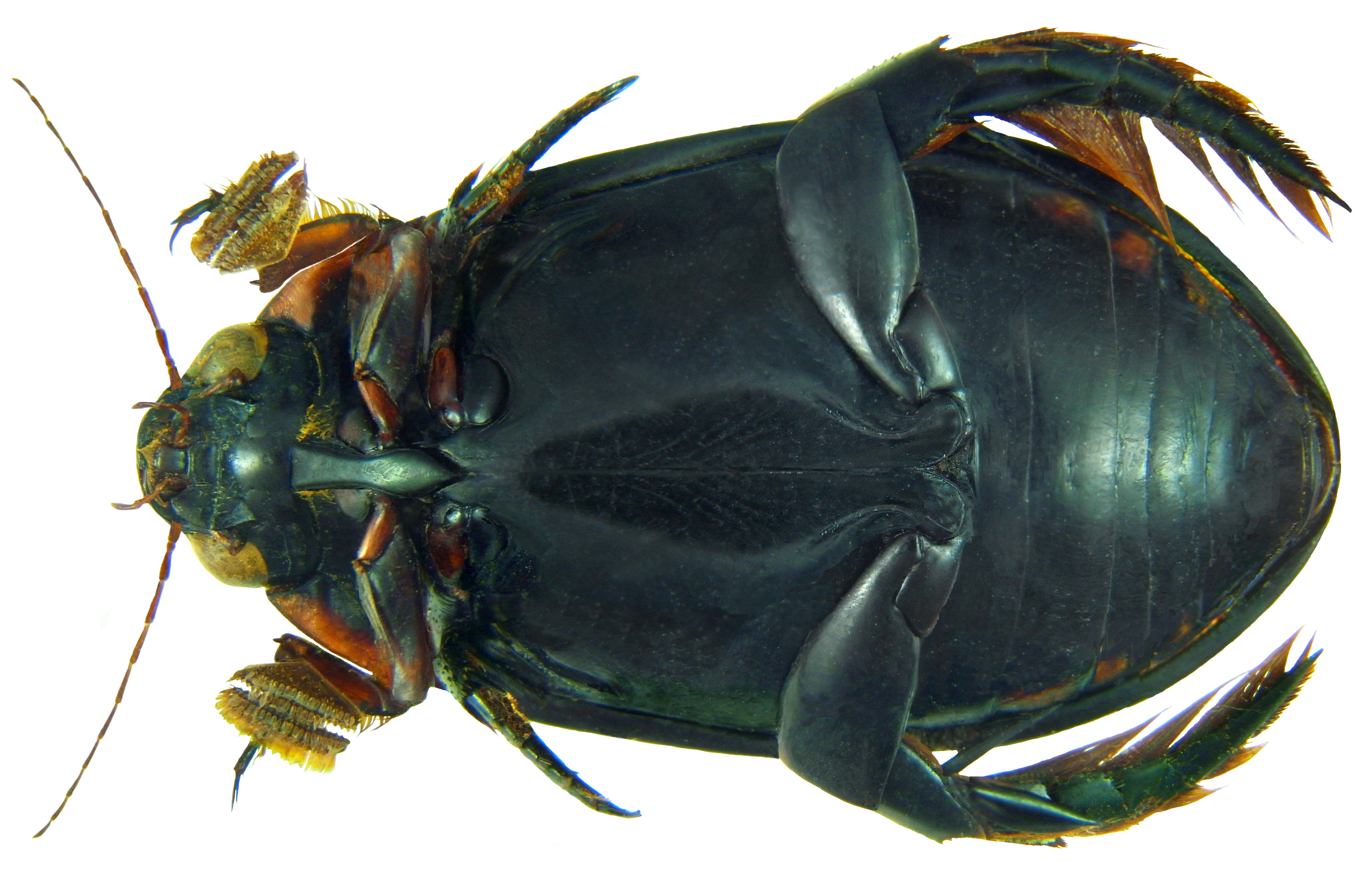 Ventral view of Cybister limbatus Familie: Dytiscidae Groesse: 35 mm Fundort: Thailand, Chiang Mai, Doi Pui leg. 26.X.1984; det. Hendrich Photo: U.Schmidt, 2012